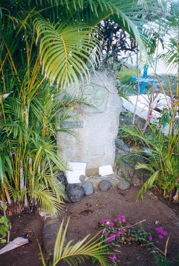 Grave of Jacques Brel in the cemetary of Atuona, Hiva Oa, French Polynesia